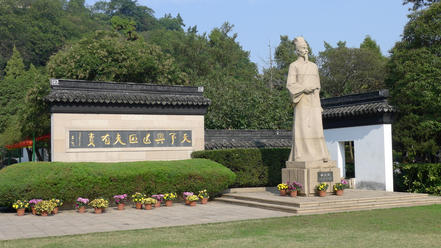 Statue of Gu Yanwu in Tinglin Park, Kunshan